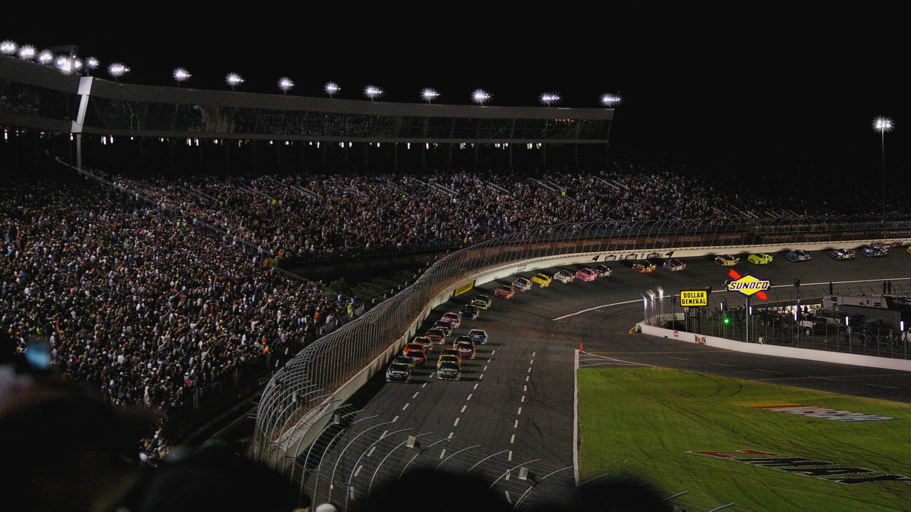 Coming to the restart.